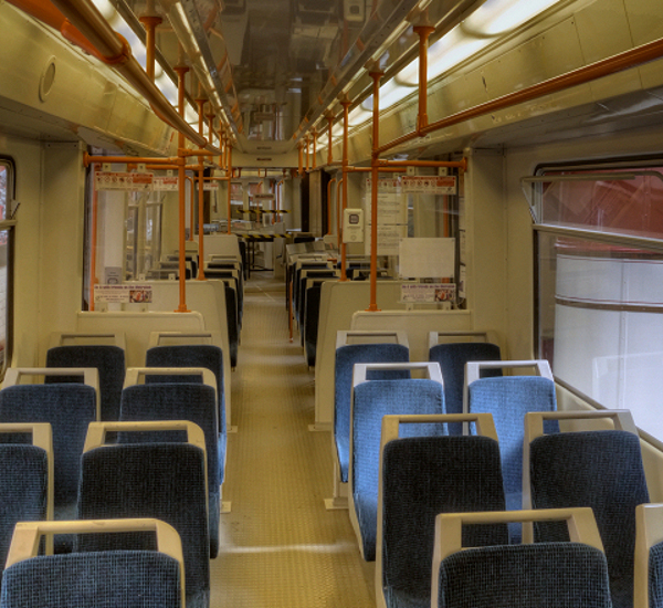 The inside of SD8400 : Metrolink 1000 now stored at the Museum of Transport, Boyle Street. Although the seat moquette is different, the basic layout was retained for the production trams.